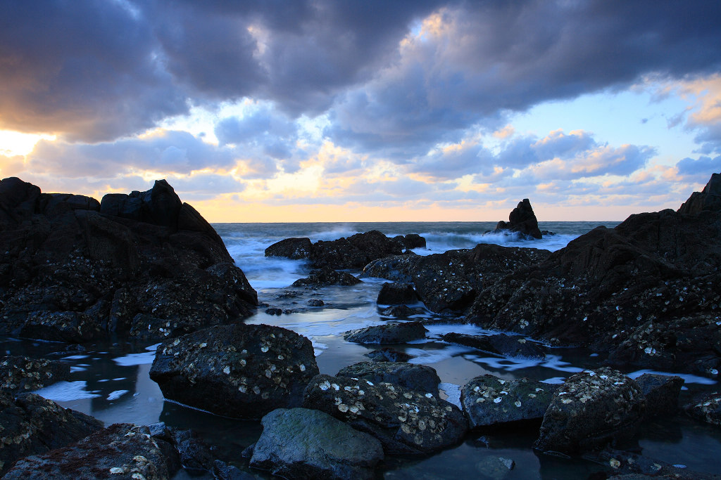 Seascape at Heishijiao Geological Park, Dalian, China